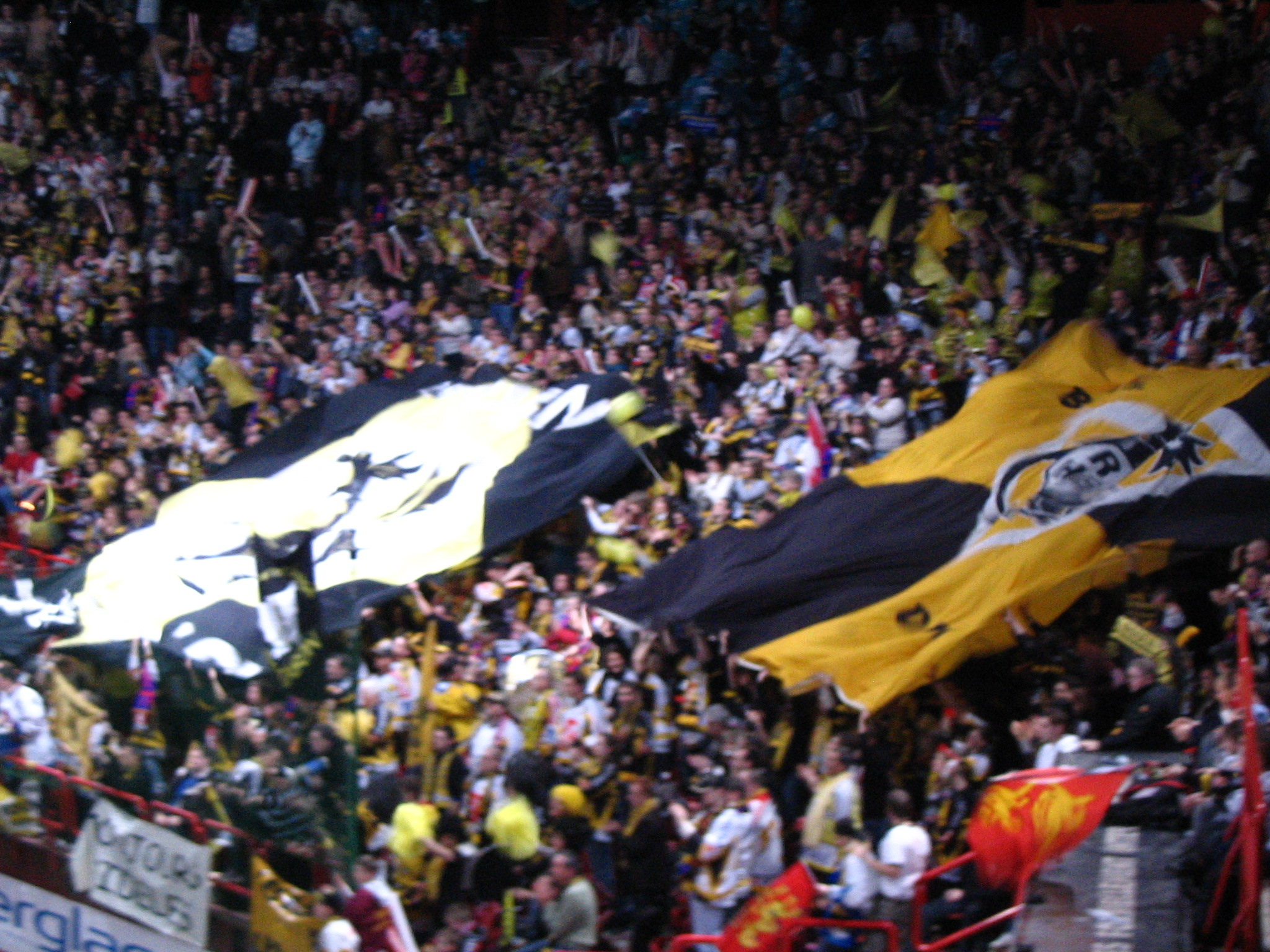 Ice Hockey French Cup Final 2007-2008 at Paris-Bercy